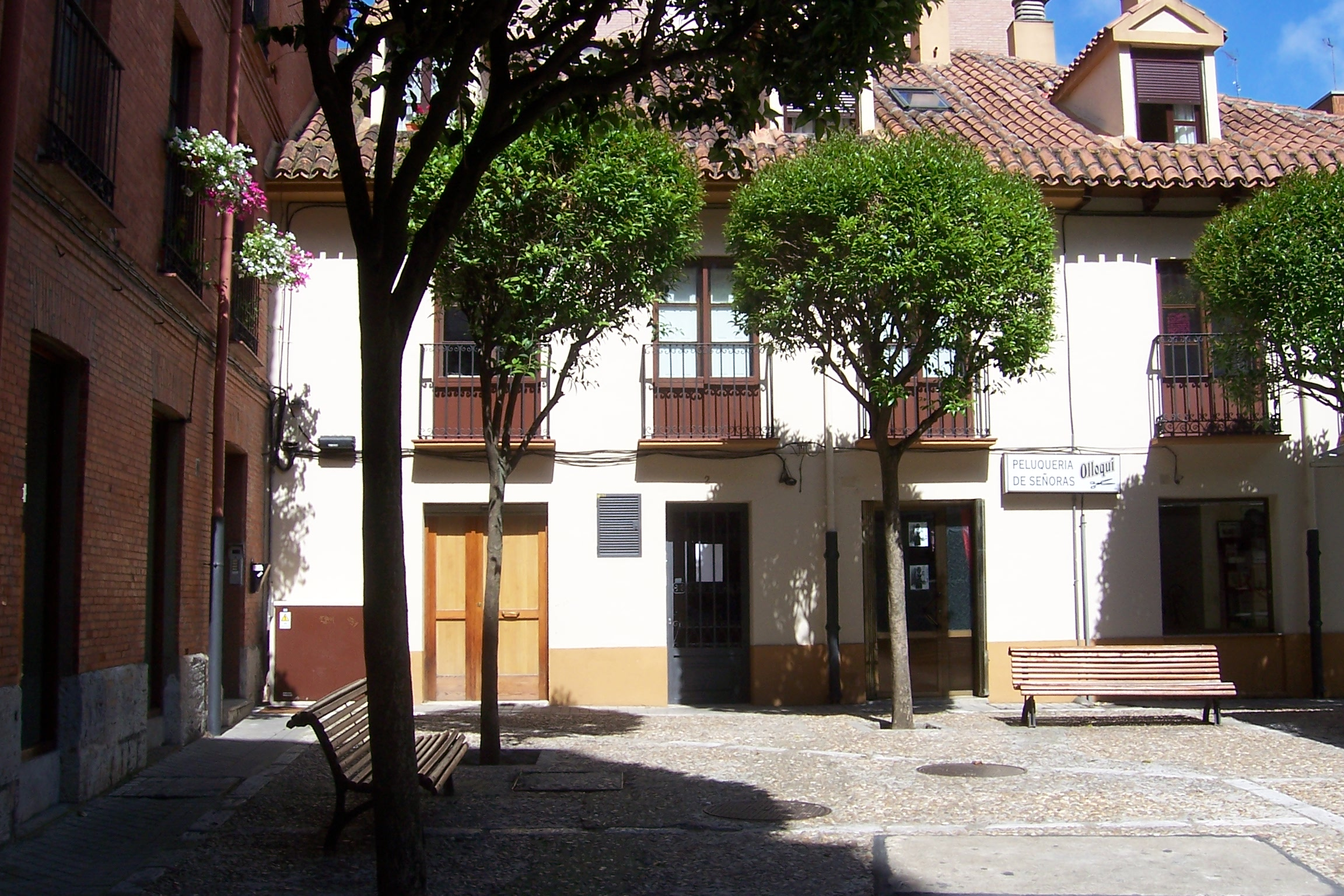 Valladolid Plaza de los Ciegos in the neighbourhood of San Nicolás, an old Jewish neighbourhood.